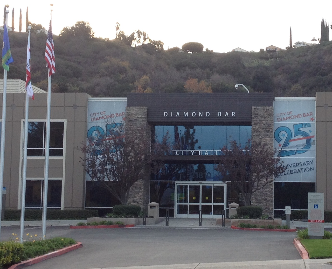 City Hall - Diamond Bar, California (2014)